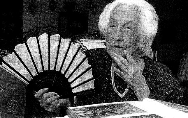 María Capovilla, my aunt by marriage